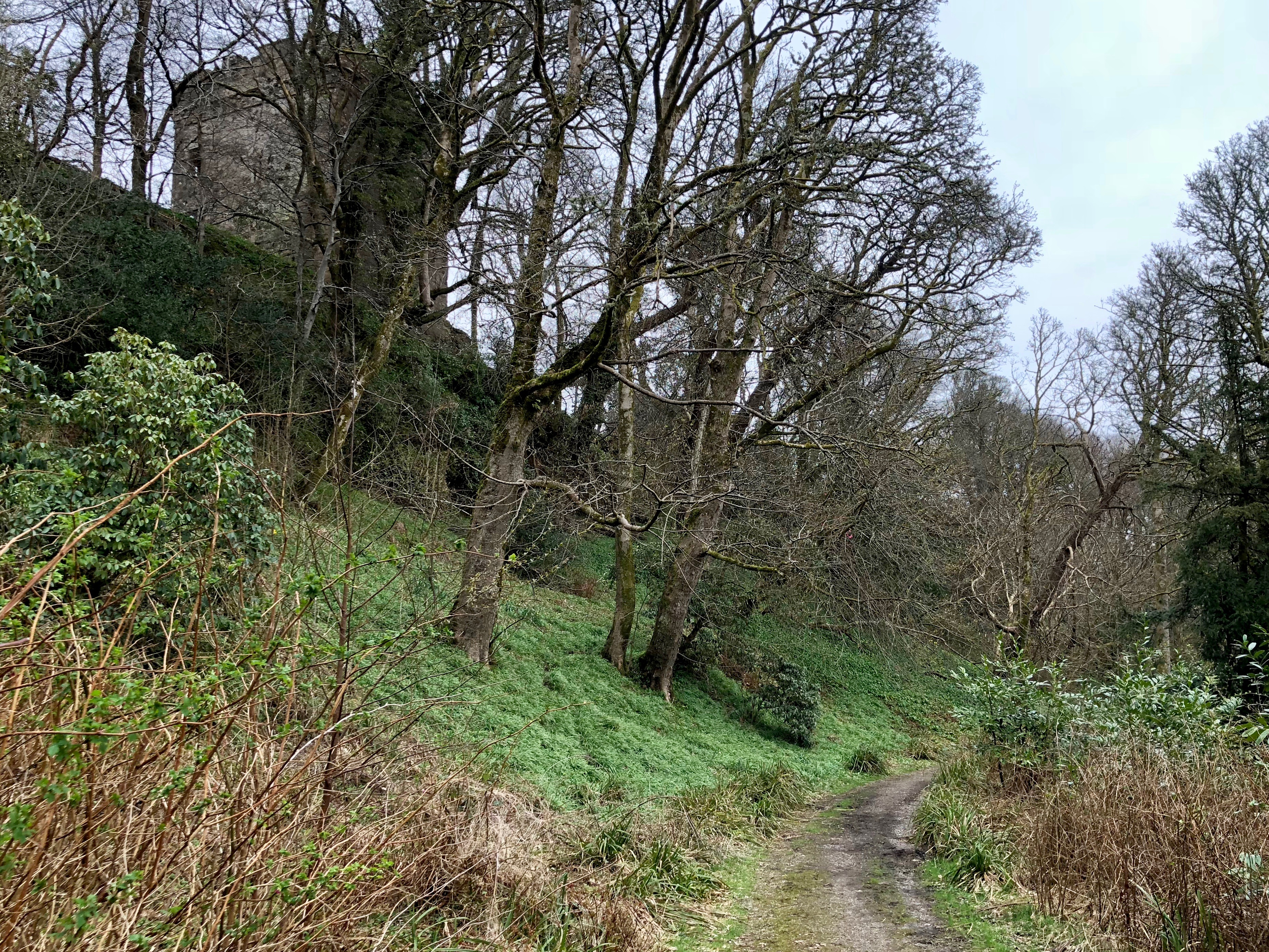 Ardgowan Castle, a 15th century tower house in the grounds of Ardgowan House near Inverkip in Scotland. Cliff top location looking over the Firth of Clyde. It was built on the site of the earlier fortress of Inverkip Castle from before the 13th century.